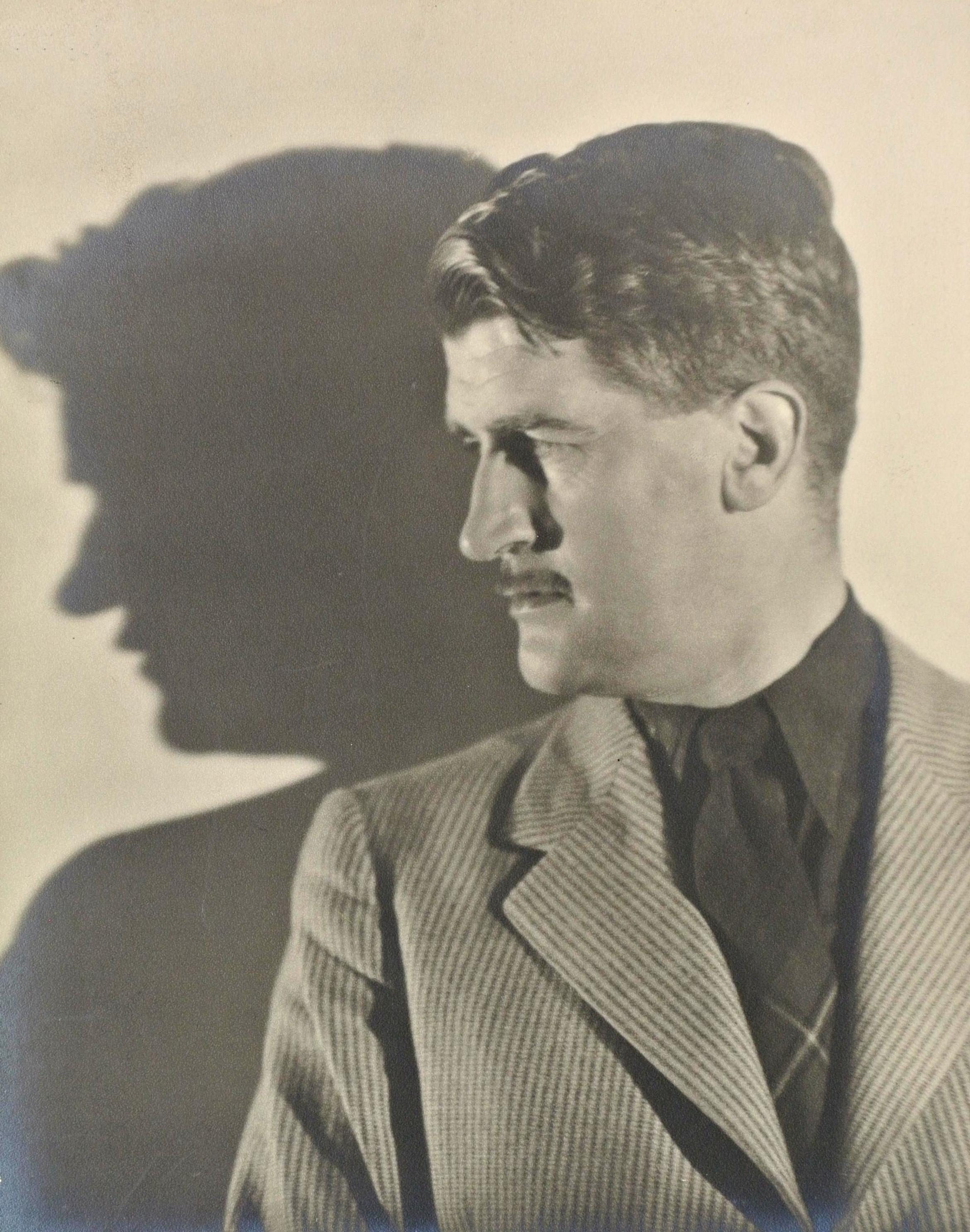 Portrait of Denis Johnston c. 1930